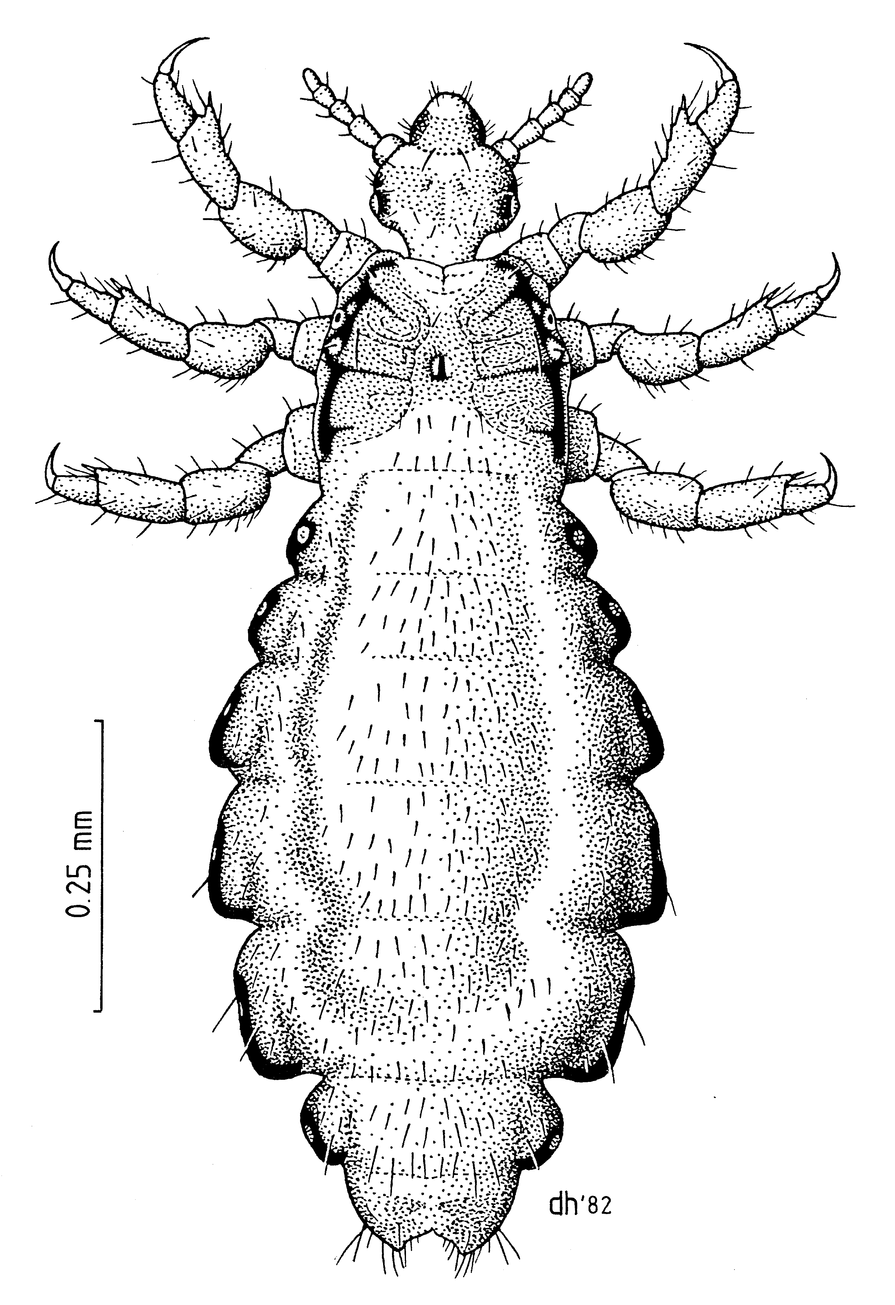 (Phthiraptera: Pediculidae) Pediculus humanus capitis illustrated by Des Helmore.